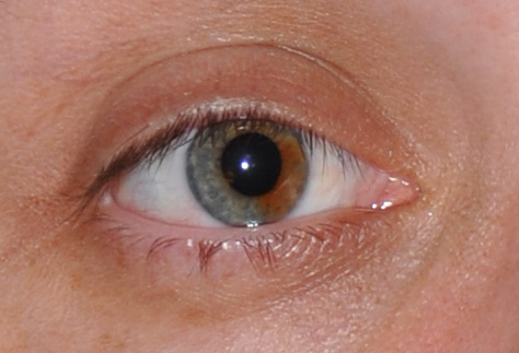 Eye with sectoral heterochromia